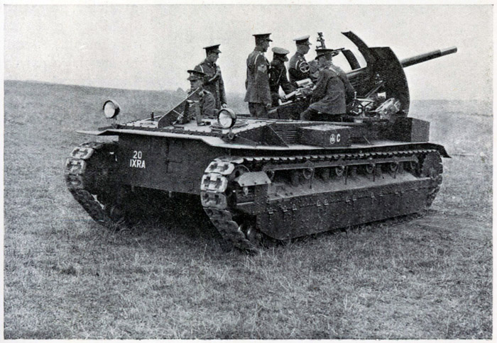 Mark II Birch Gun in action during British Army manoeuvres. This image may have been taken anytime between the guns' issue in July 1926 and their withdrawal in June-July 1931. Markings on the front hull plate indicate it is being manned by 20 Battery, 9th Field Brigade, Royal Artillery.